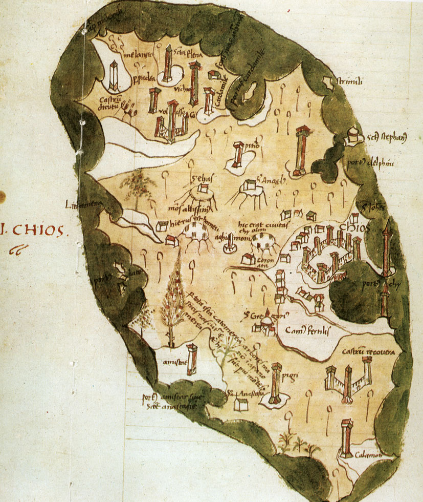 Cristoforo Buondelmonti, Liber Insularum Archipelagi (1420), Chios island, Aegean Sea